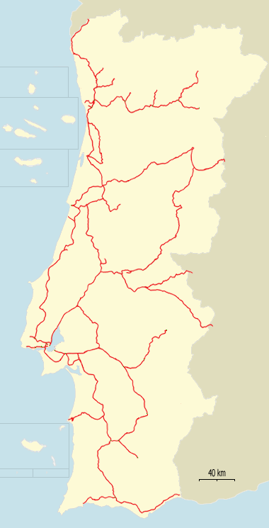 Portuguese railways in work, on 31st December, 2007.